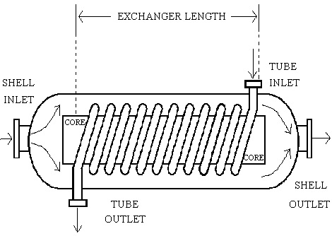 Helical-Coil Heat Exchanger sketch, which consists of a shell, core, and tubes (Scott S. Haraburda design).